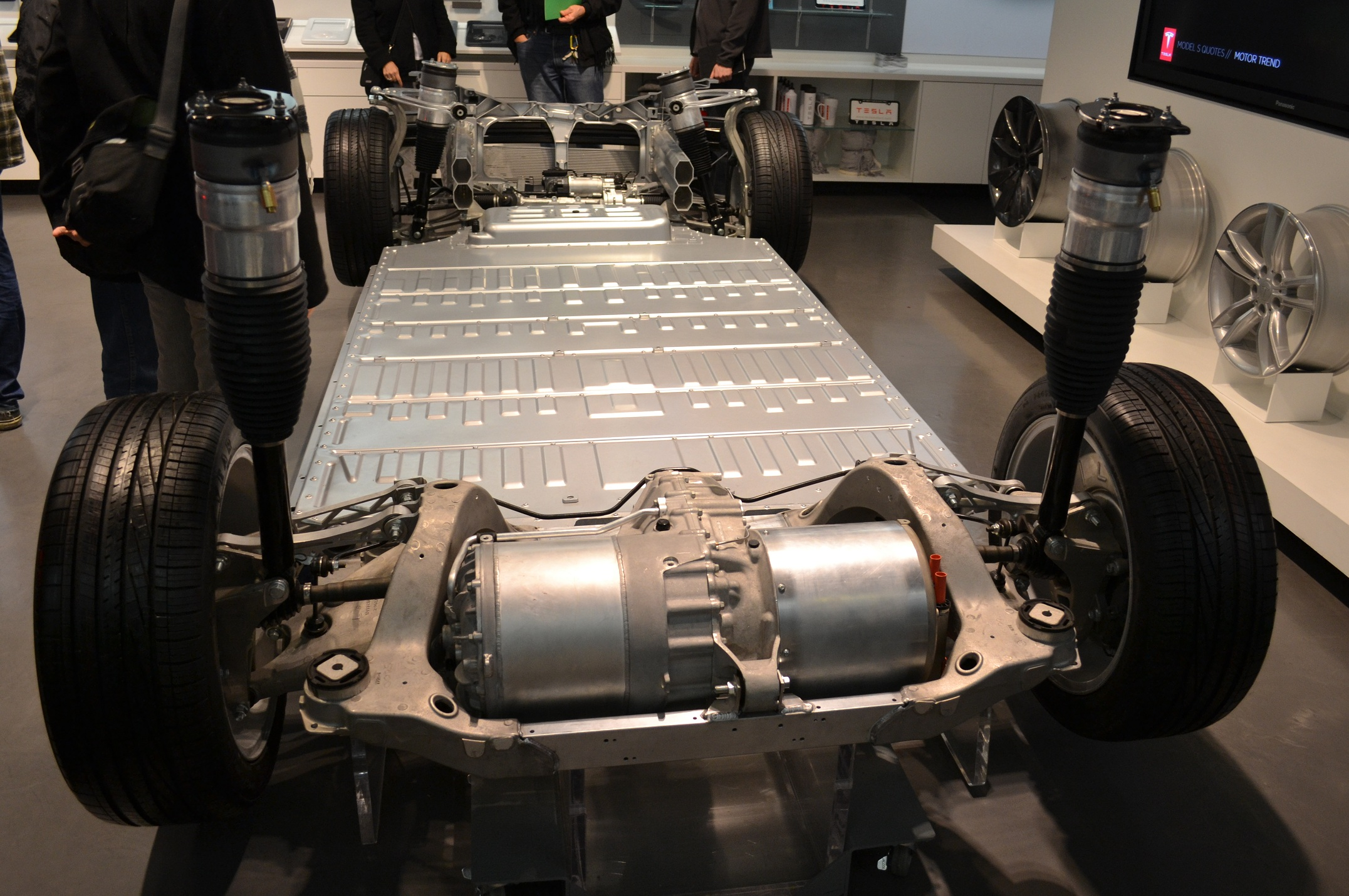 Tesla Motors Model S base, seen at Santana Row in San Jose, California